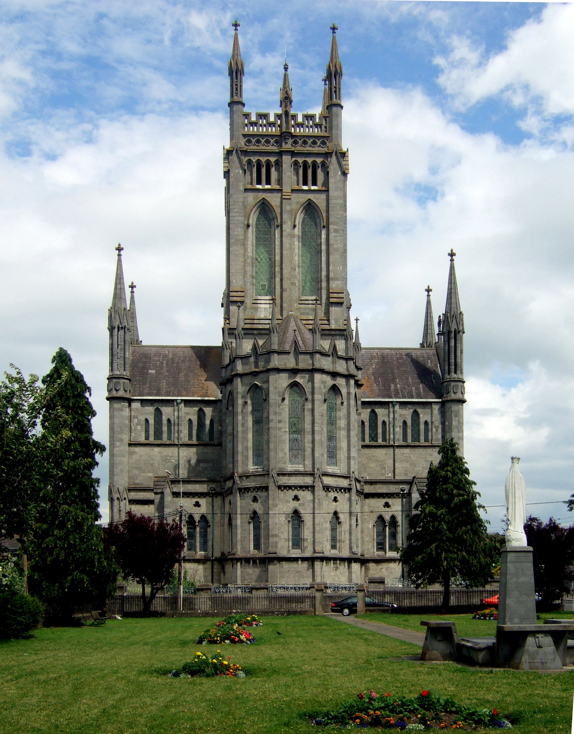 St. Mary's Cathedral in Kilkenny. There are two cathedrals in Kilkenny, St. Canices Cathedral (Anglican) and St. Mary's Cathedral (Catholic).